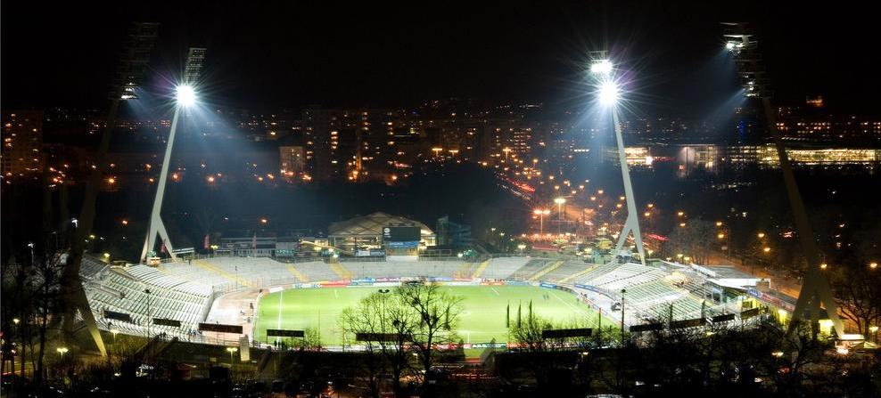 Photo of Rudolf-Harbig-Stadium in Dresden.